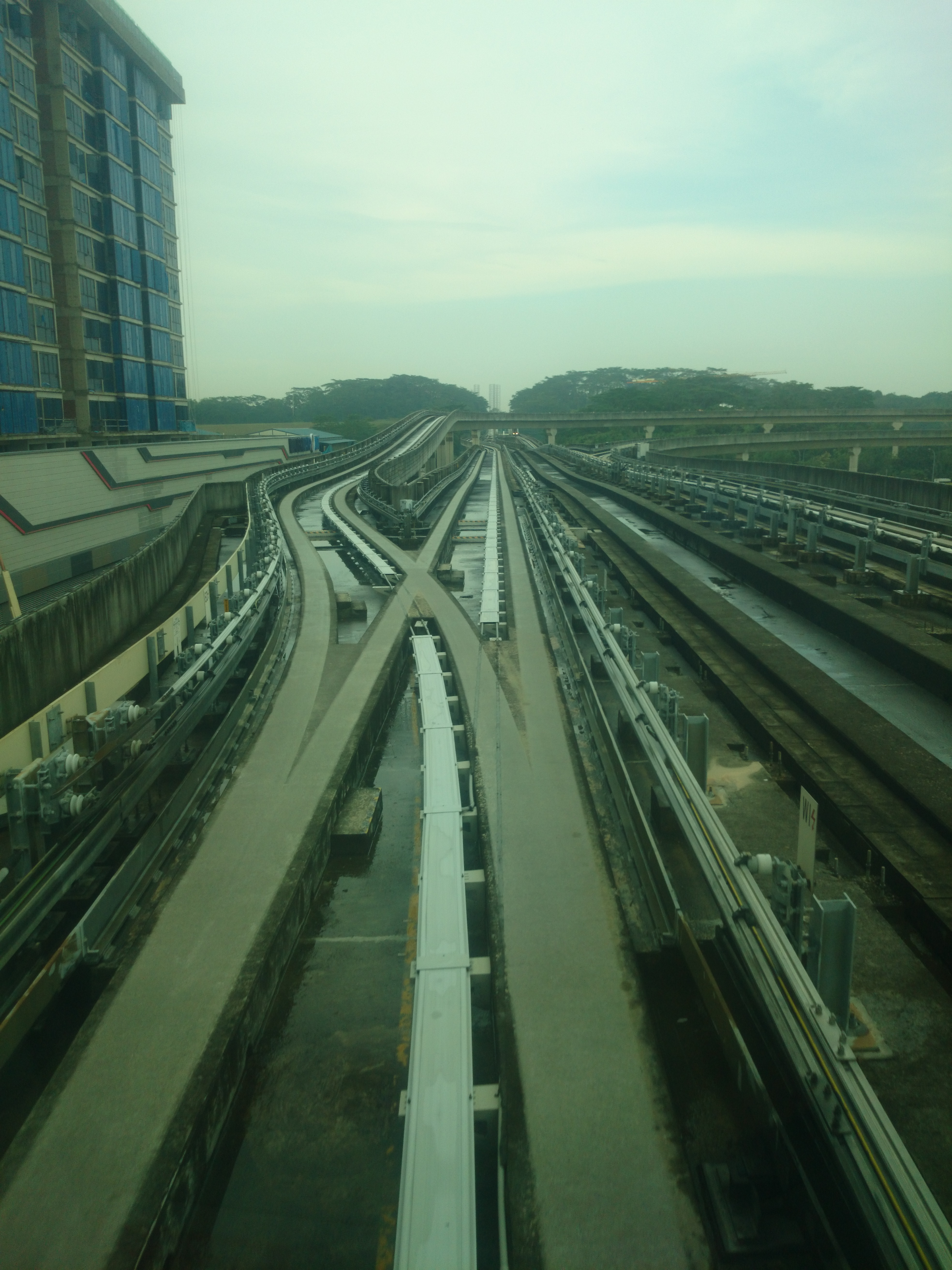 Track of Singapore LRT, viewing straightly.